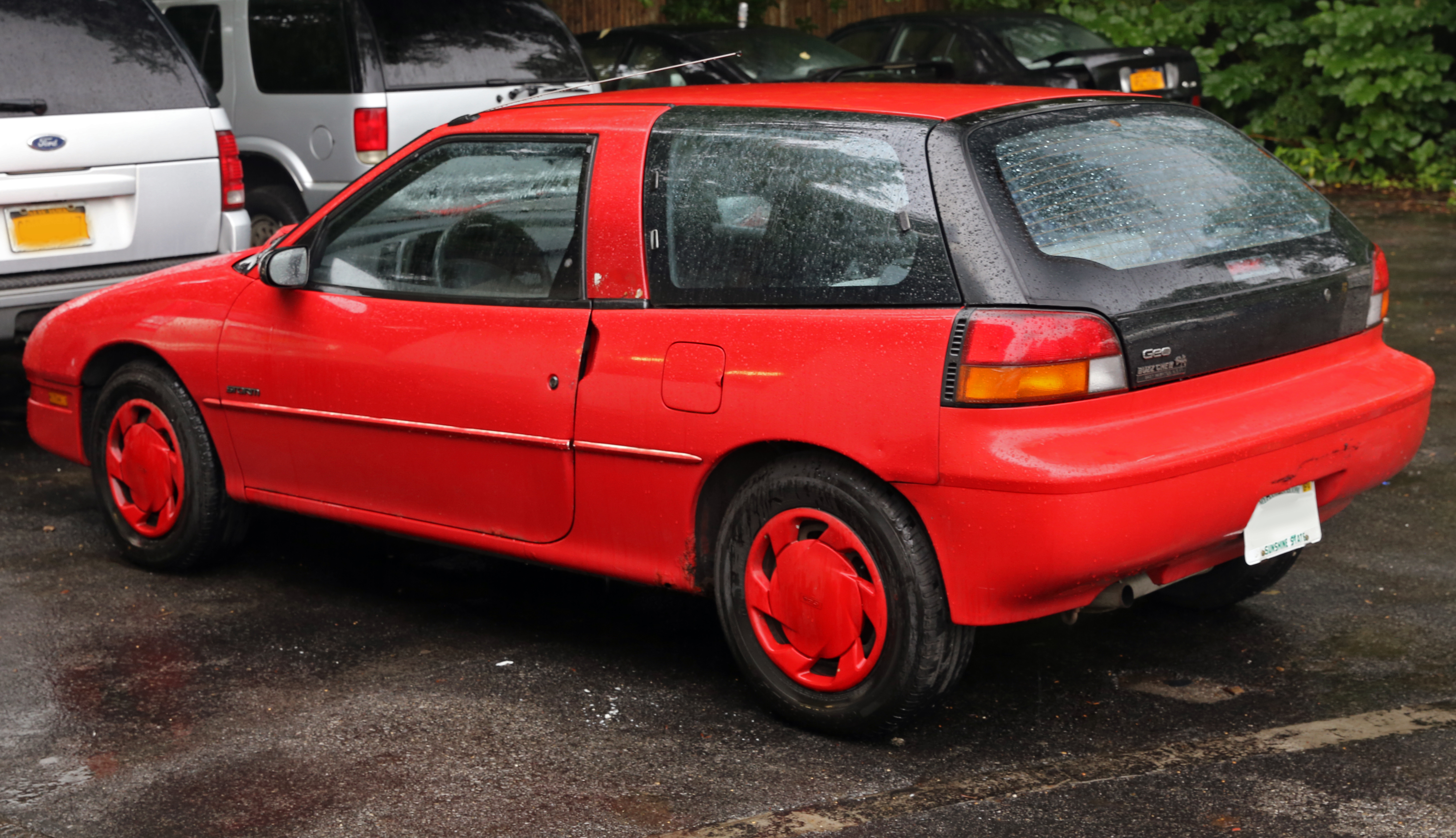 A 1991 Geo Storm Hatchback, with the 1.6 liter SOHC engine. Driver's side airbag, built at Isuzu's Fujisawa plant. Looks to have a bunch of non-standard red paint, but still the only rear view of the Hatchback at the time of uploading.